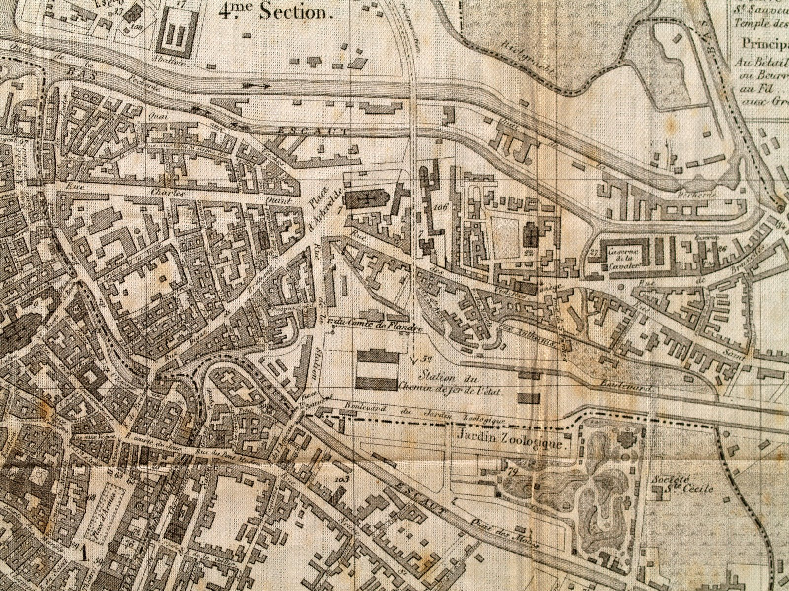 Map_of_Ghent,_Belgium,_1841.jpg